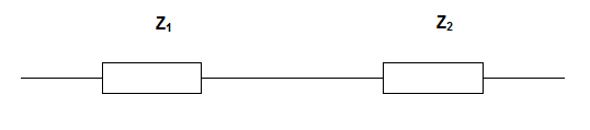 Series impedances